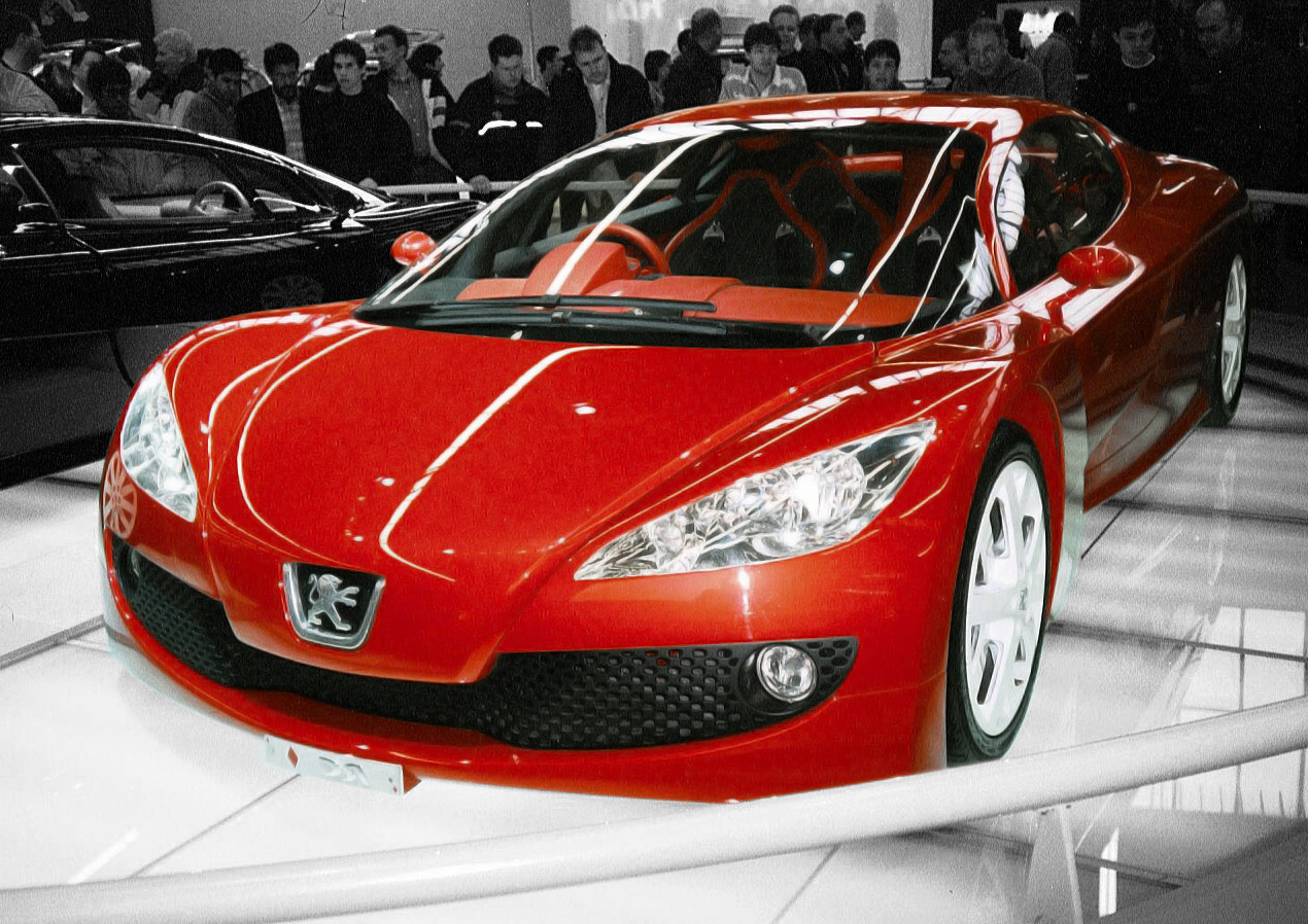 Peugeot RC. Colors manipulated for better car exposure.